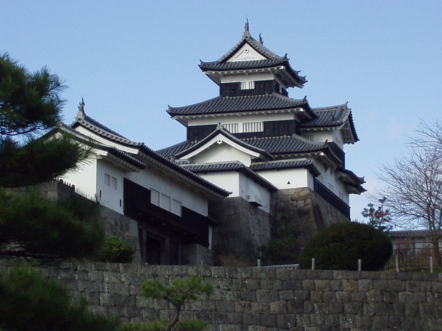 Triple Tower (or Tenshu) of the Shirakawa Komine Castle. Shirakawa, Fukushima prefecture, Japan.